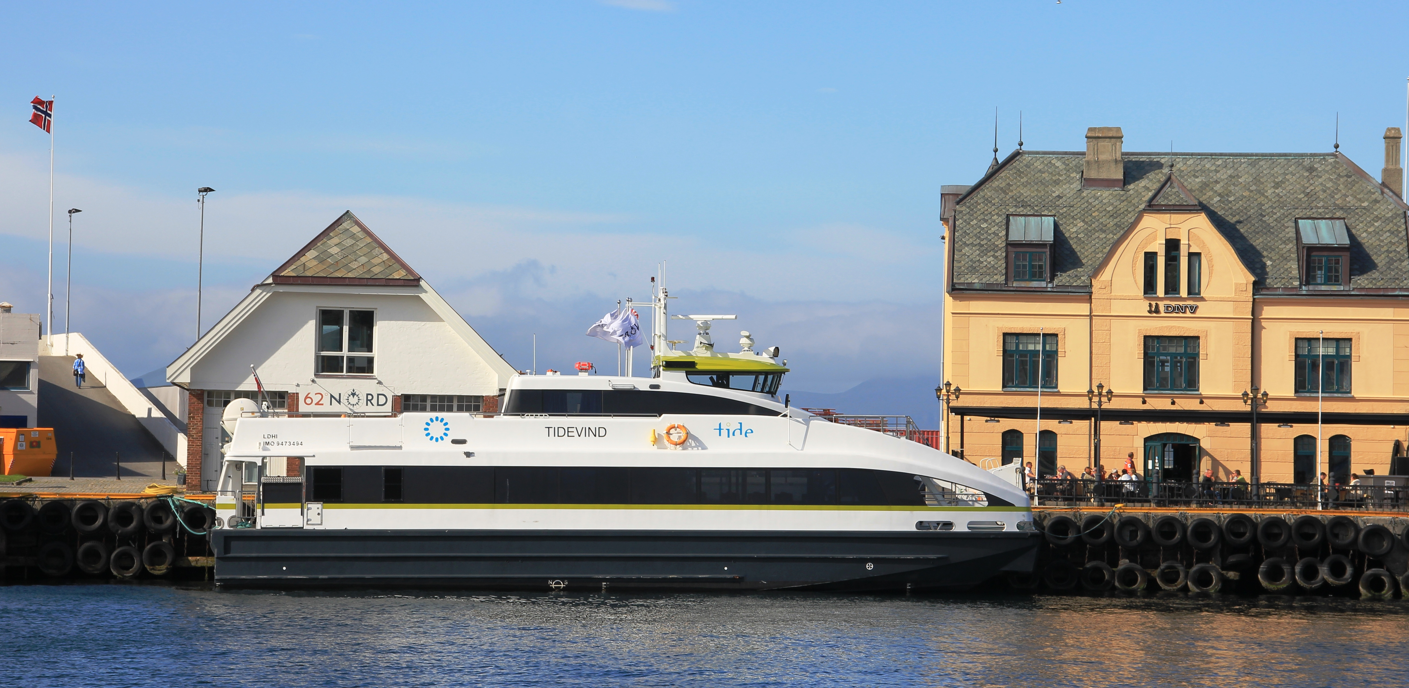 The passenger catamaran MS Tidevind in Ålesund